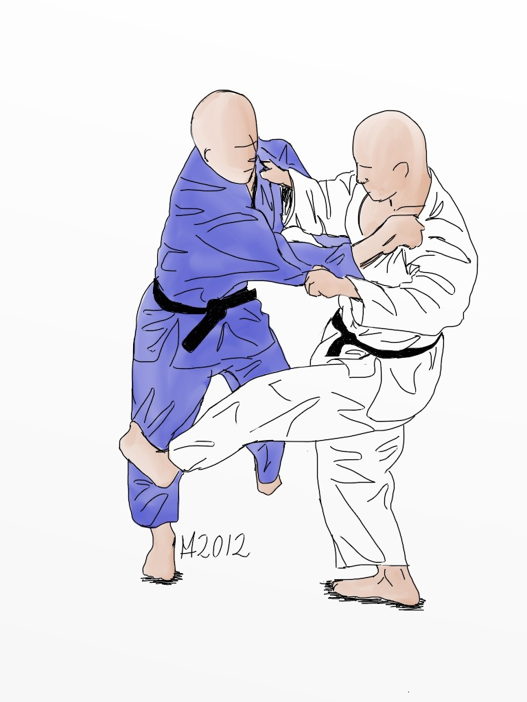 Illustration of the judo throw hiza-guruma, or knee-wheel, where you throw the opponent by pulling forward and stepping to the side while blocking the knee of the supporting leg with your foot.